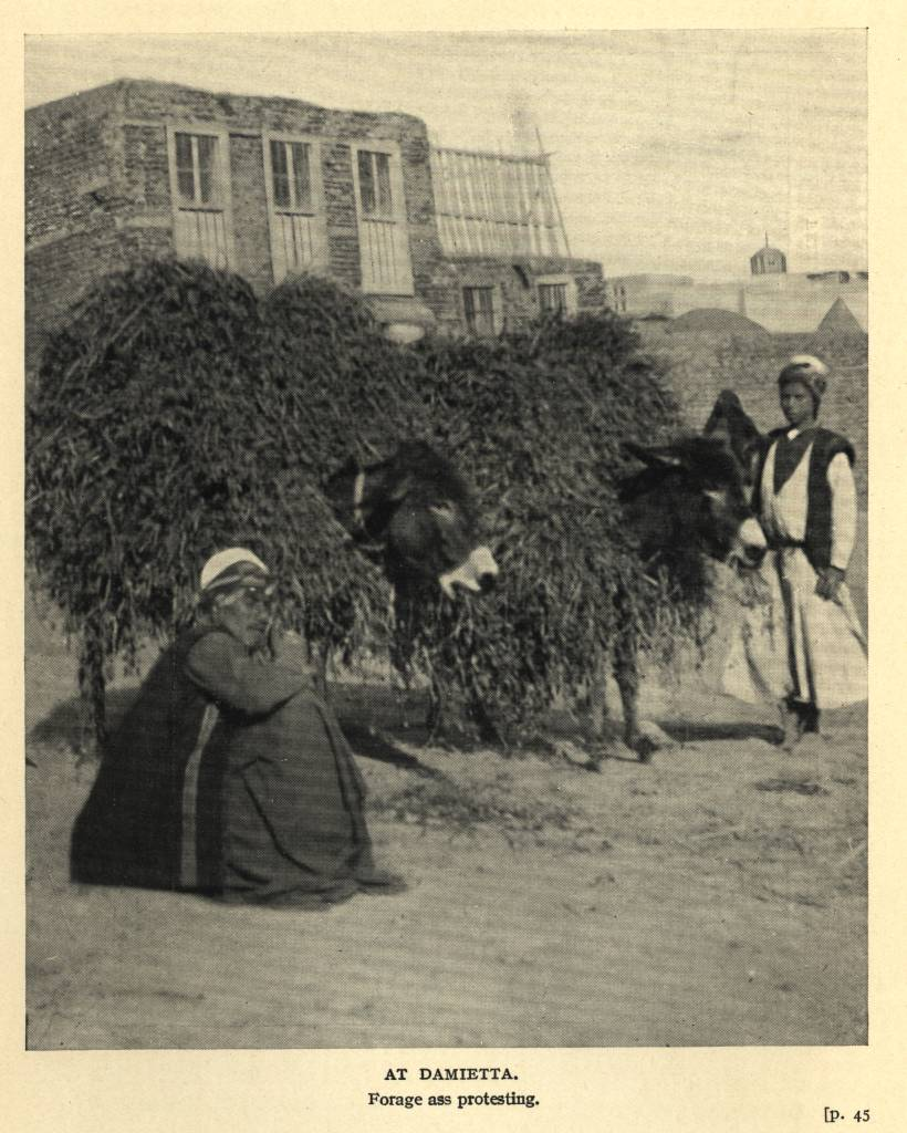 The City of Damietta on the Nile